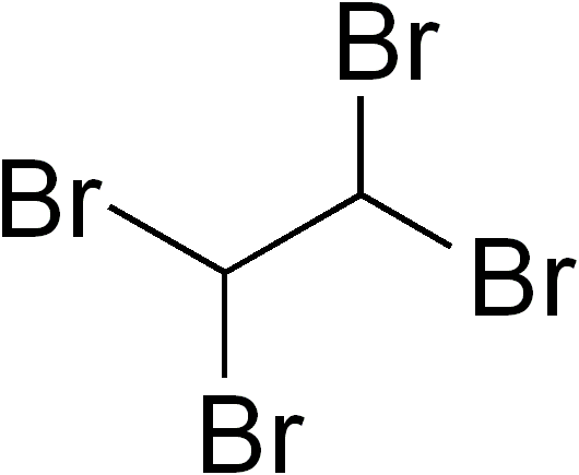 chemical structure of 1,1,2,2-tetrabromoethane